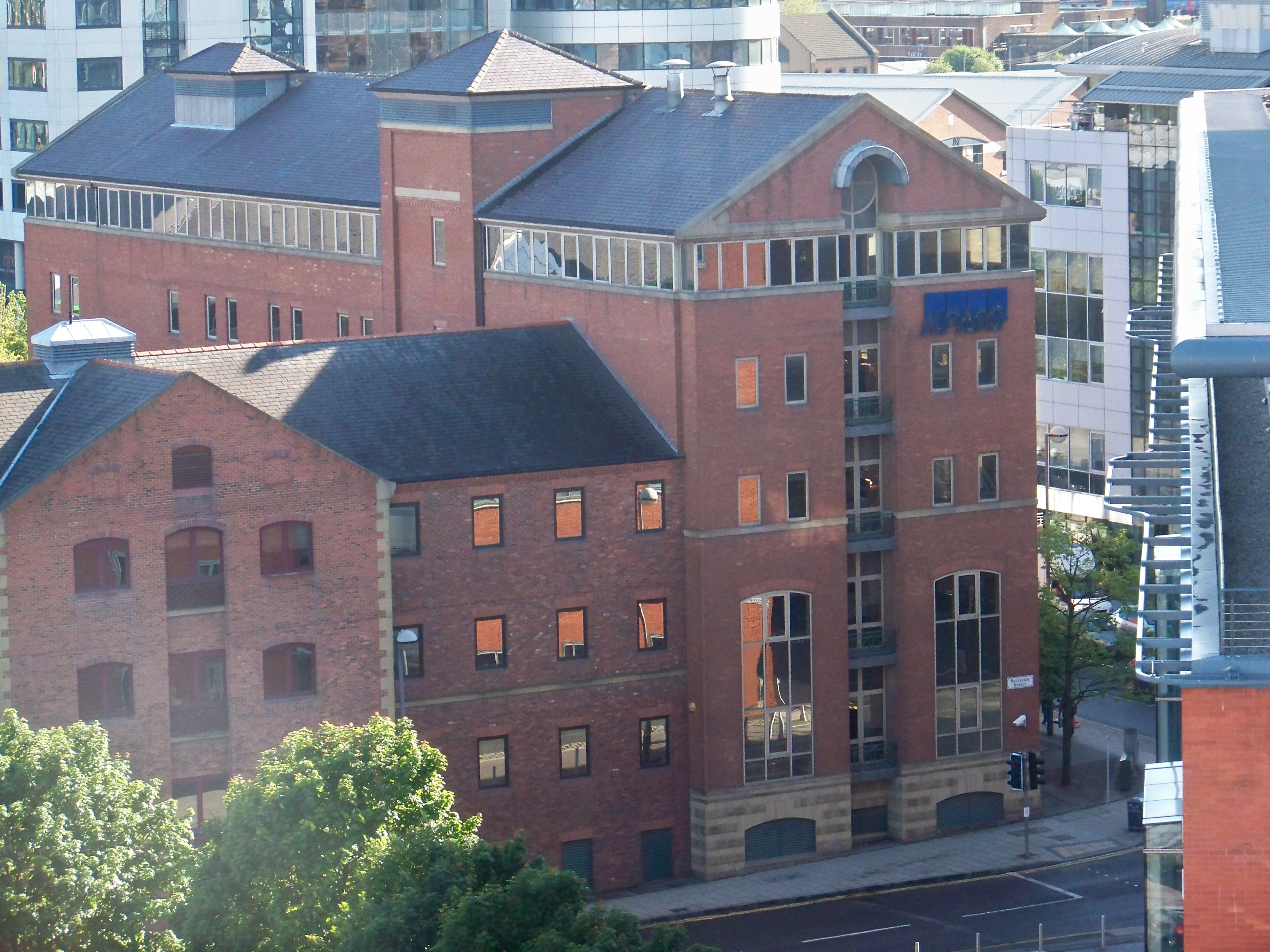 KPMG offices in Leeds, West Yorkshire, UK. May 2009.